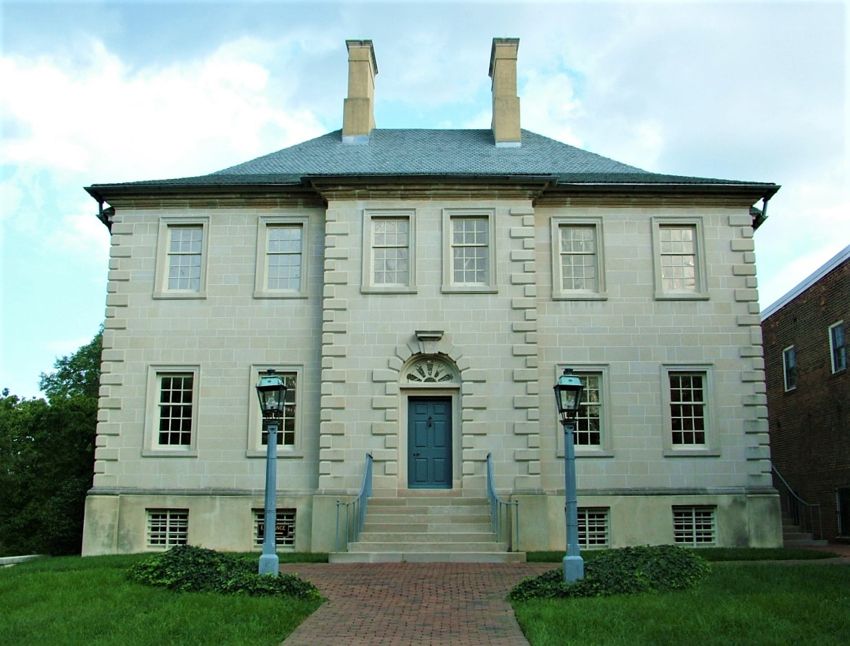 Carlyle House